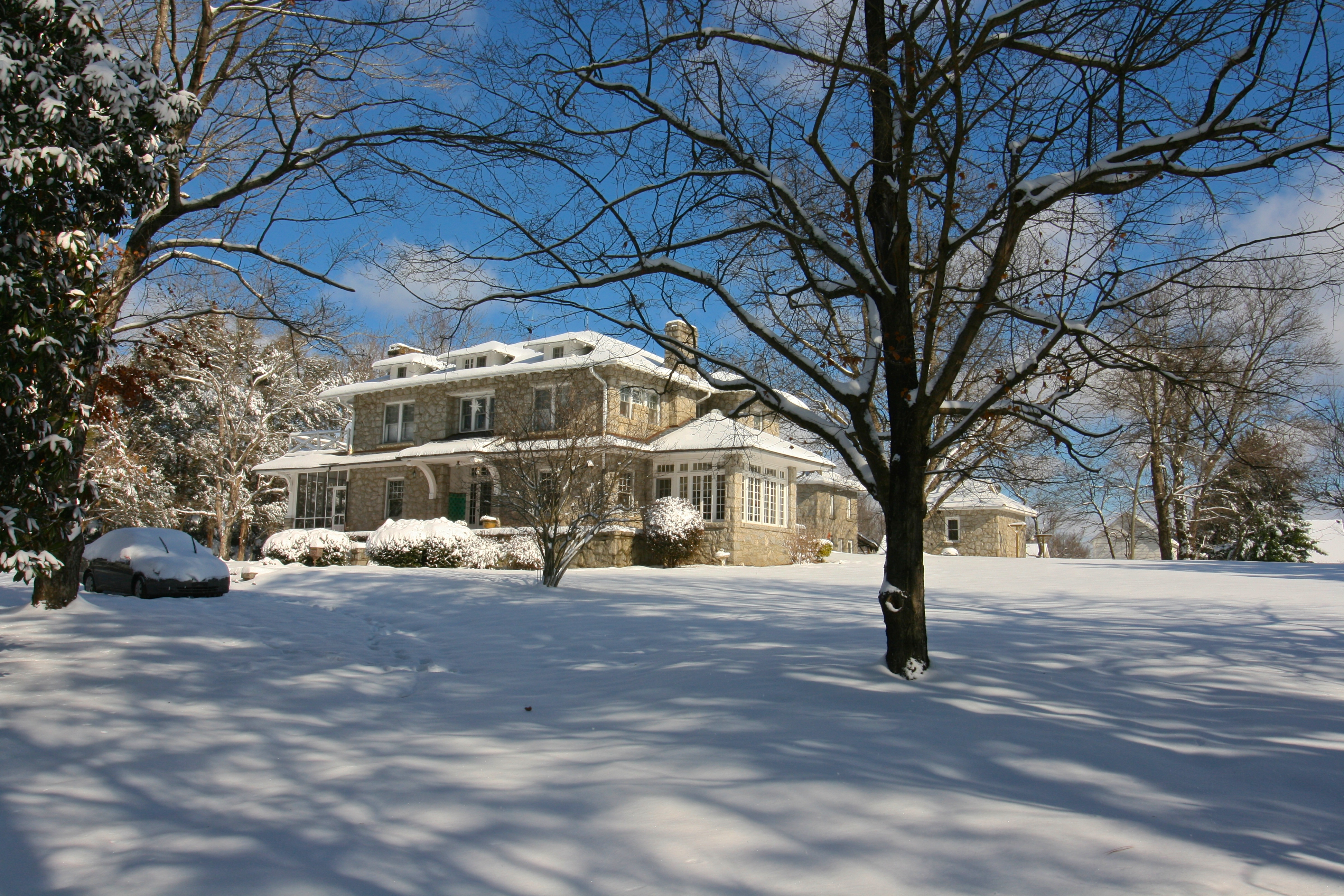 photograph of the John Wesley Snyder House (ca.1922), located in southern Forsyth County, North Carolina